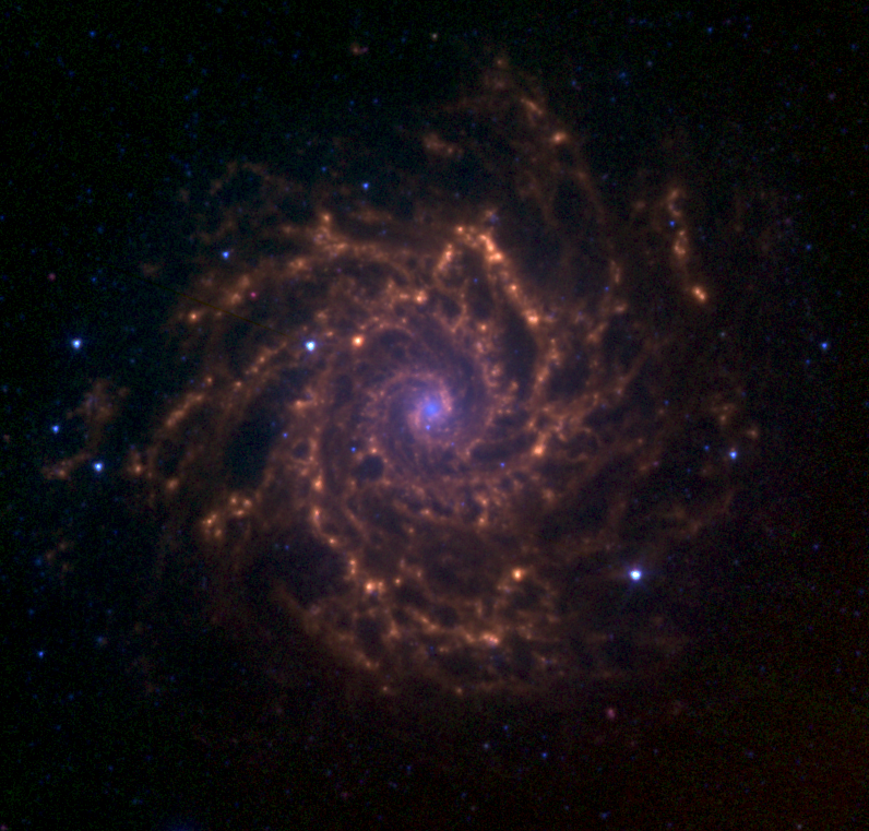 Image of the M74 galaxy in Infrared at 3.6 (blue), 5.8 (green) and 8.0 (red) µm. The image has been made by myself (Médéric Boquien) from the data retrieved on the SINGS project public archives of the Spitzer Space Telescope (courtesy NASA/JPL-Caltech) Spitzer image use policy